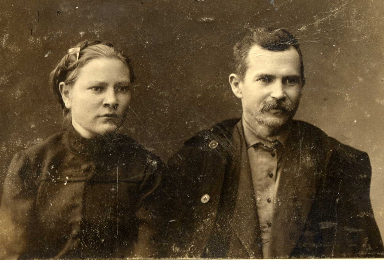 Russian gardener Bedro, Ivan Prokhorovich and his wife (1915-1917)